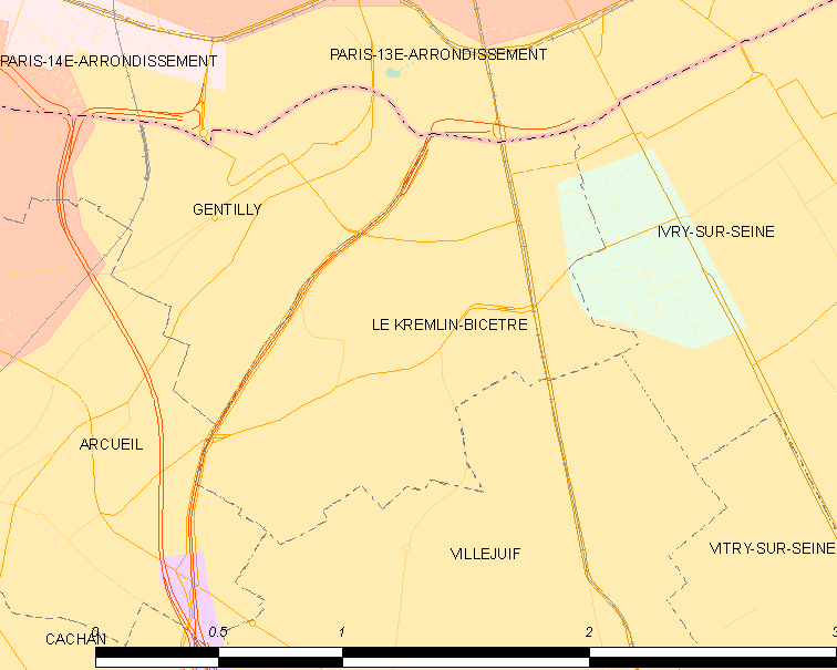 Map of French municipality Le Kremlin-Bicêtre